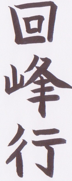 Japanese transcription of kaihogyo